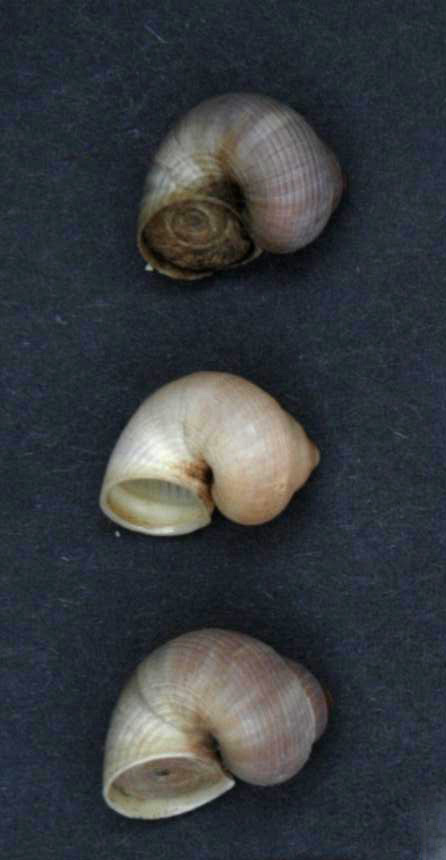 Pomatias glaucus (Sowerby, 1843)